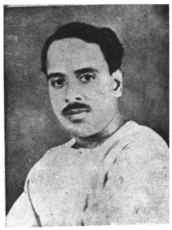 C. N. Annadurai in the year 1946